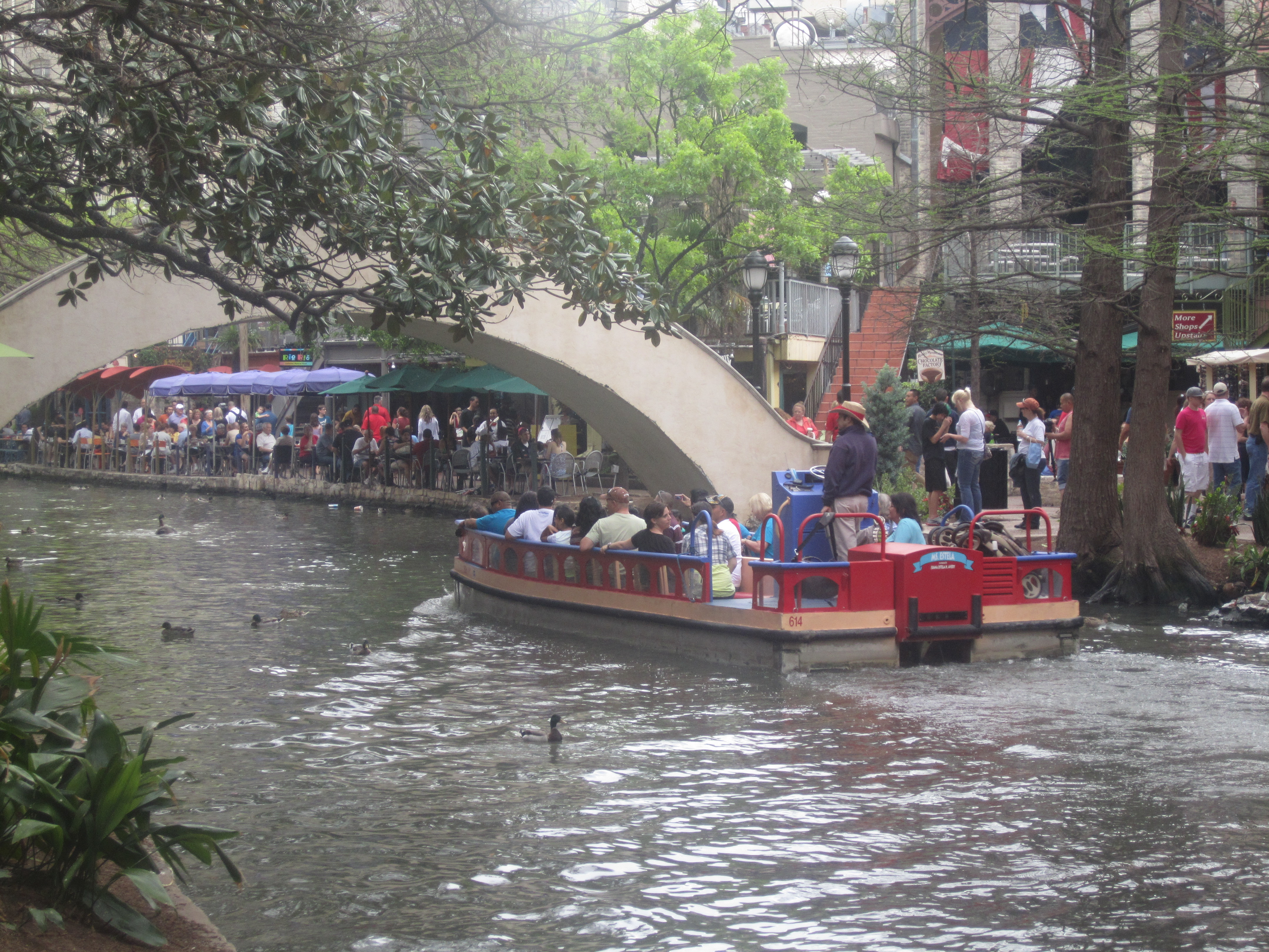 I took river walk photo with Canon camera in San Antonio, TX.